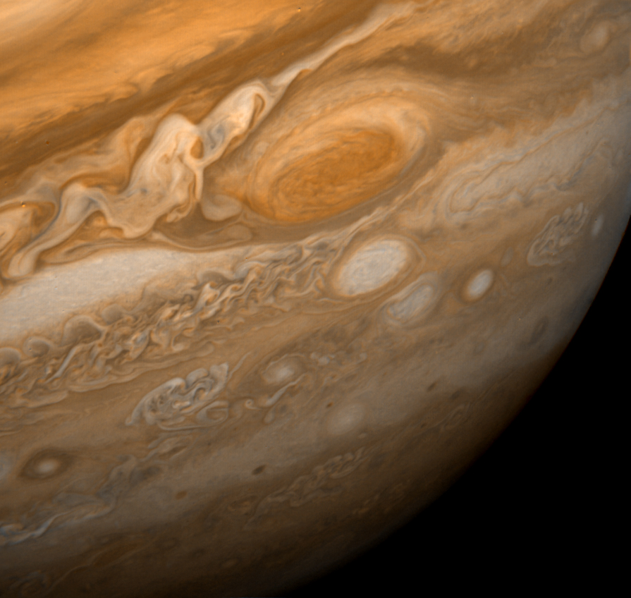 The Great Red Spot as seen from Voyager 1 This dramatic view of Jupiter's Great Red Spot and its surroundings was obtained by Voyager 1 on February 25, 1979, when the spacecraft was 5.7 million miles (9.2 million kilometers) from Jupiter. Cloud details as small as 100 miles (160 kilometers) across can be seen here. The colorful, wavy cloud pattern to the left of the Red Spot is a region of extraordinarily complex and variable wave motion. To give a sense of Jupiter's scale, the white oval storm directly below the Great Red Spot is approximately the same diameter as Earth. Suggested for English Wikipedia:alternative text for images: quarter view of Jupiter with the Great Red Spot at middle top as orange oval within a turbulent belt of wavy clouds. Below the Great Red Spot are various bands of turbulent clouds with smaller spots: some pale cream, others dark brown.